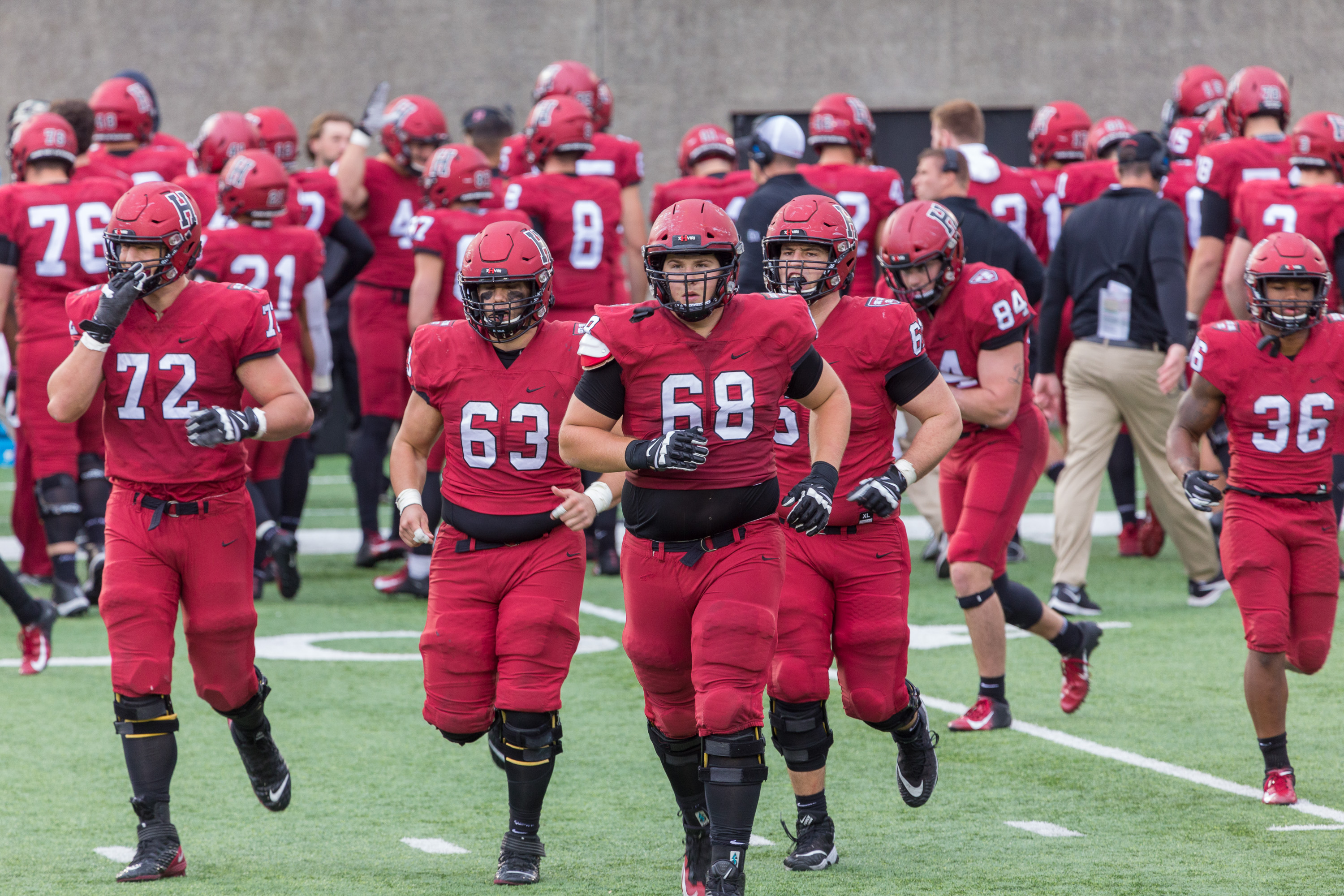 No.68 Eric Wilson and No.63 Jackson Ward enter the field. Cornell vs. Harvard football game, October 12, 2019, at Harvard Stadium. Harvard won, 35-22.